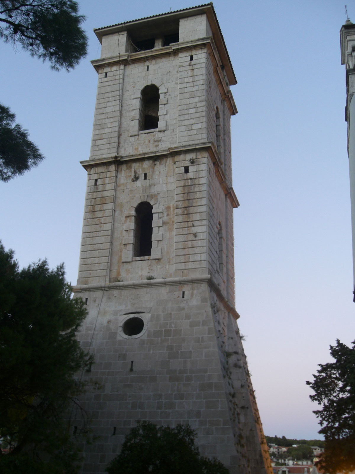 Church tower in Tisno, Croatia